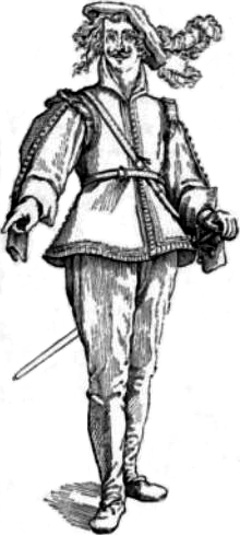 Léandre, a French theatrical character type.